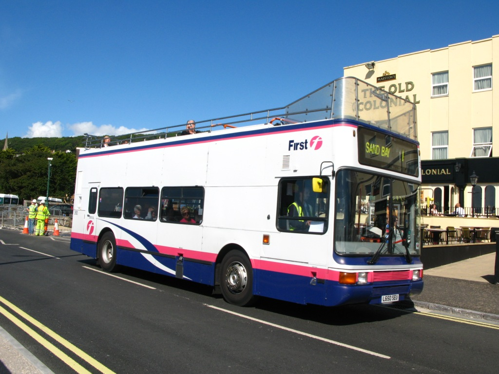 Open top bus 39920(L650 SEU) of First Somerset and Avon operating the coastal route from Sand Bay to Weston-super-Mare in North Somerset, England.